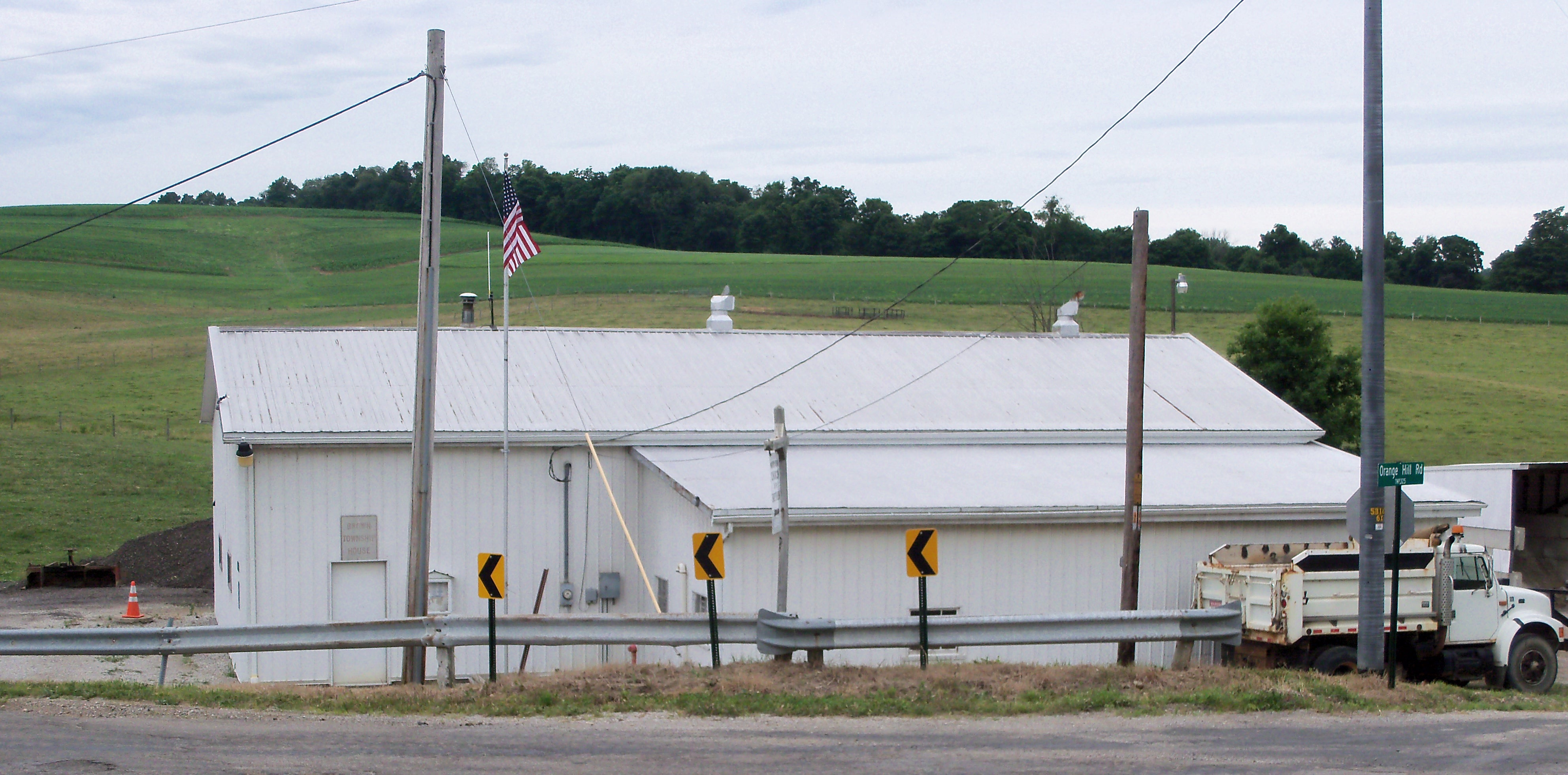 Brown Township, Knox County, Ohio Meeting House and maintenance garage